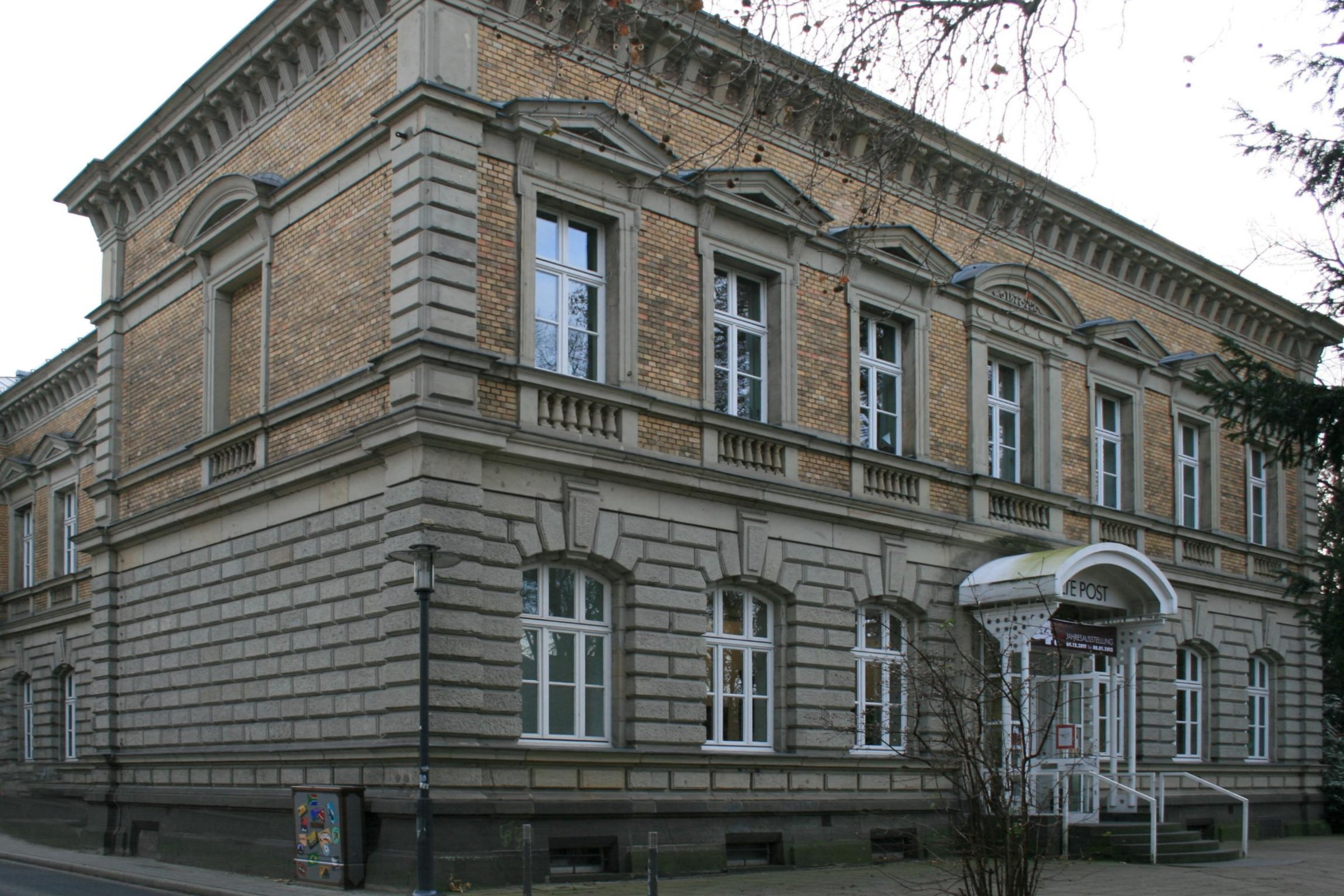 This is a photograph of an architectural monument.